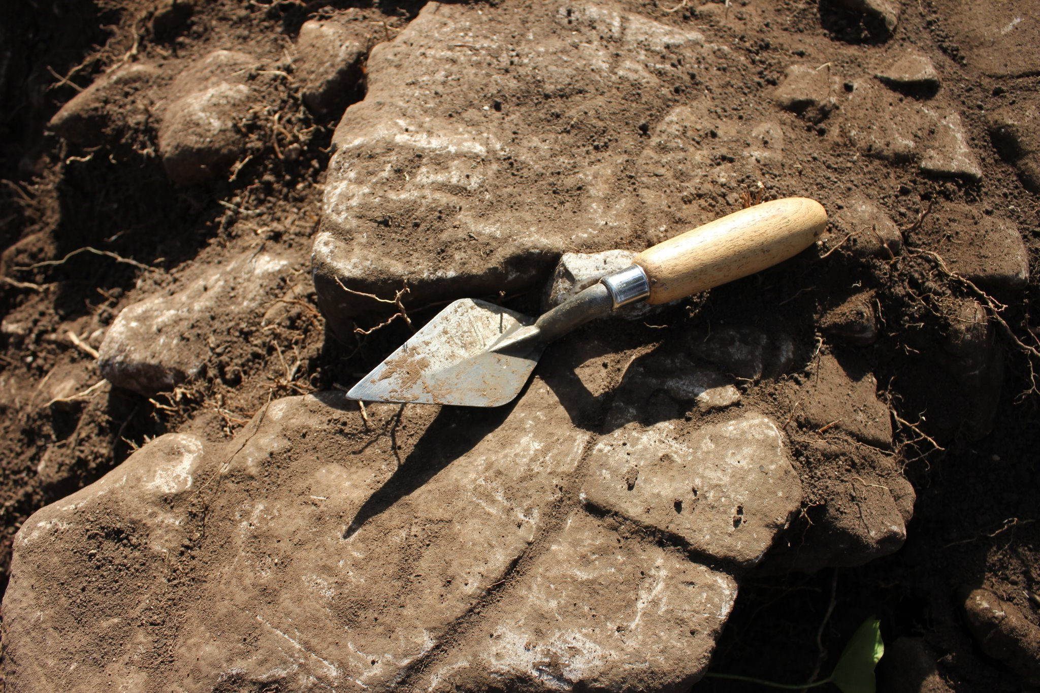 Standard WHS archaeology trowel used in British Archaeology